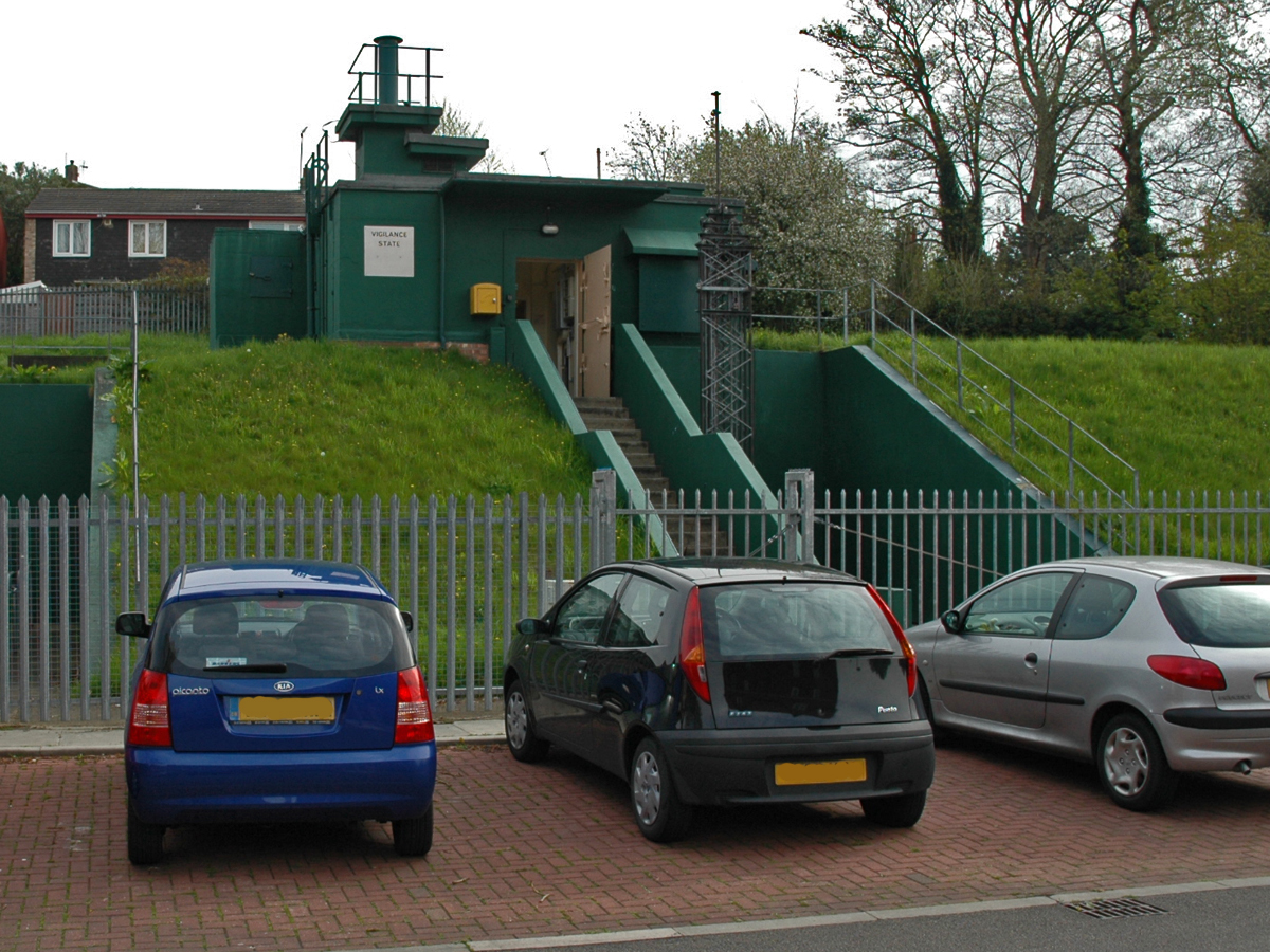 York ROC Bunker, owned by English Heritage and open to the public.